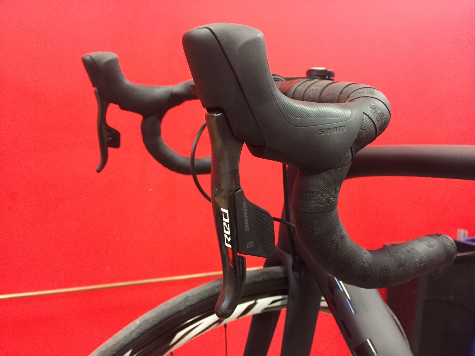 2017 SRAM RED eTap HRD Brake Levers